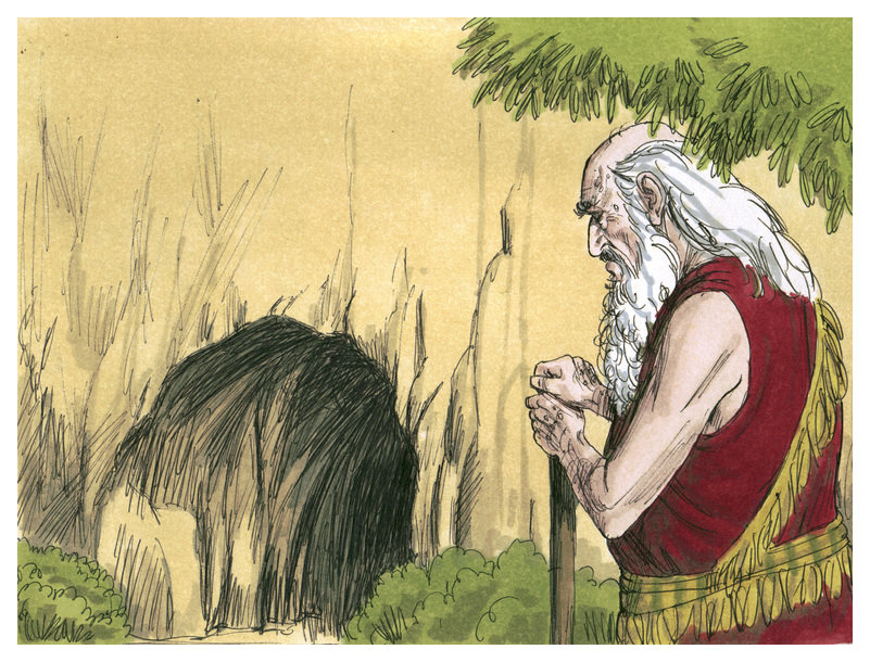 Biblical illustration of Book of Genesis Chapter 23